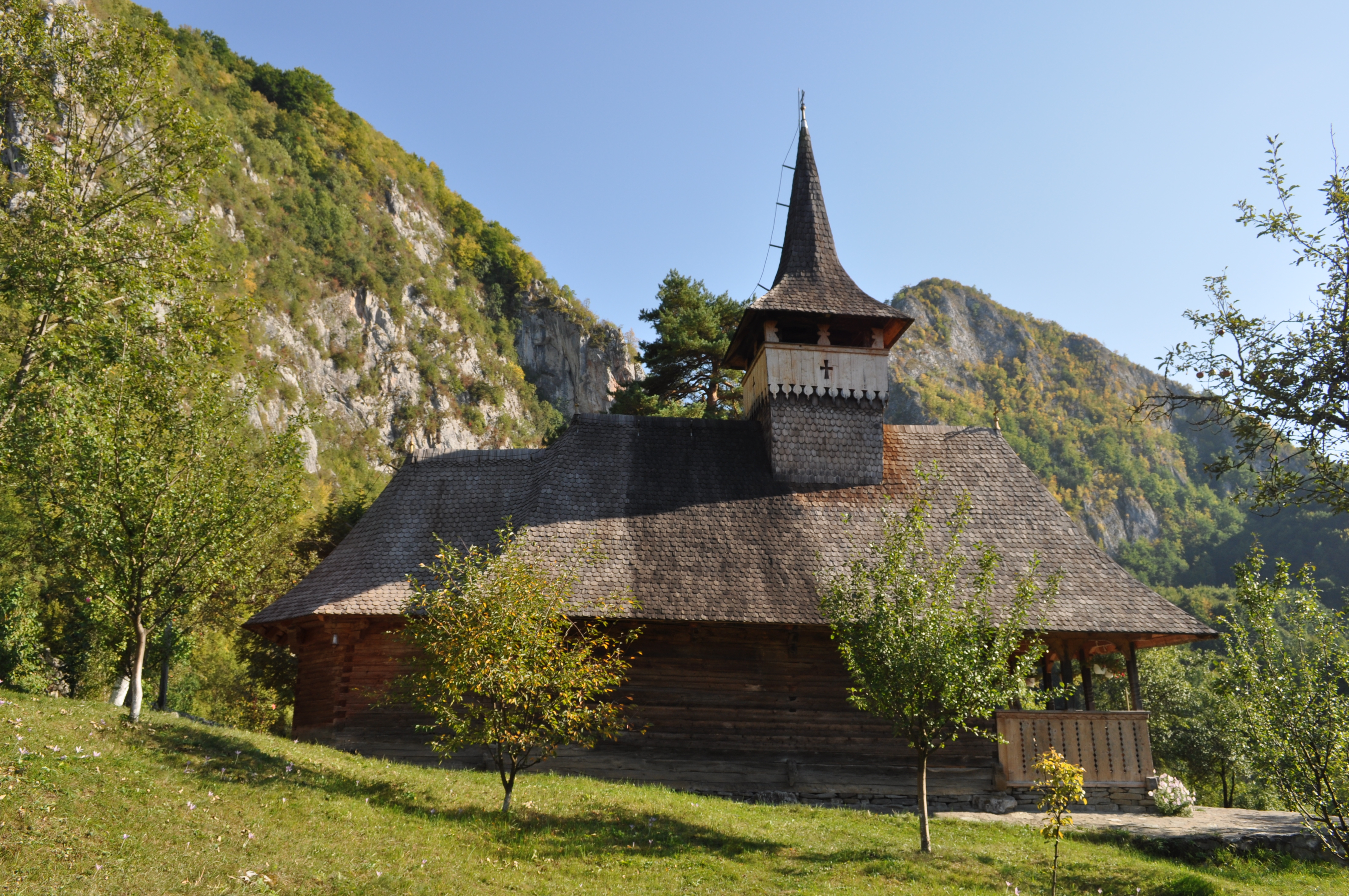 Wooden church in Sub Piatră, Alba countyRomână: Biserica de lemn din Sub Piatră, județul Alba